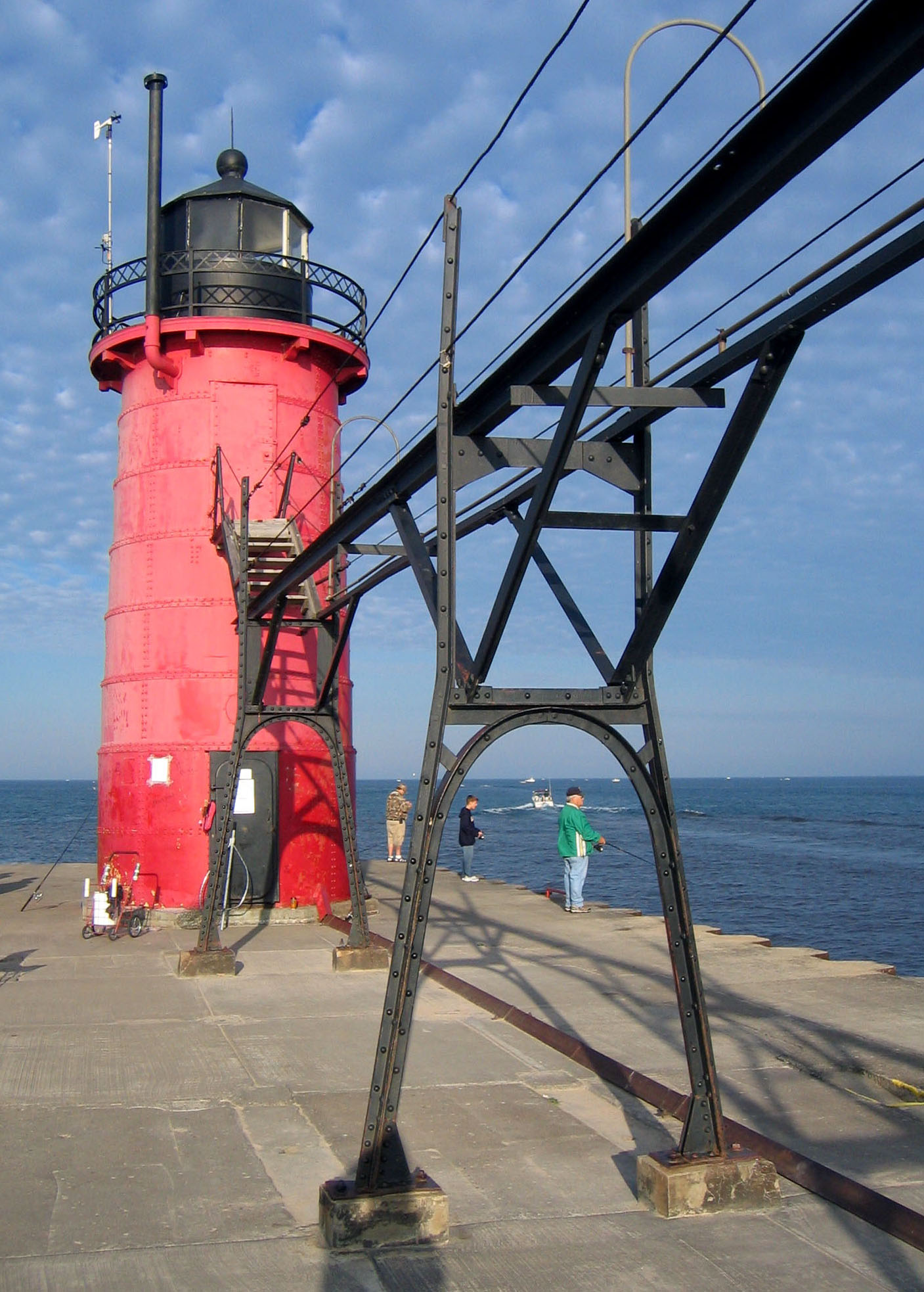 The South Haven South Pier Lighthouse from the northeast